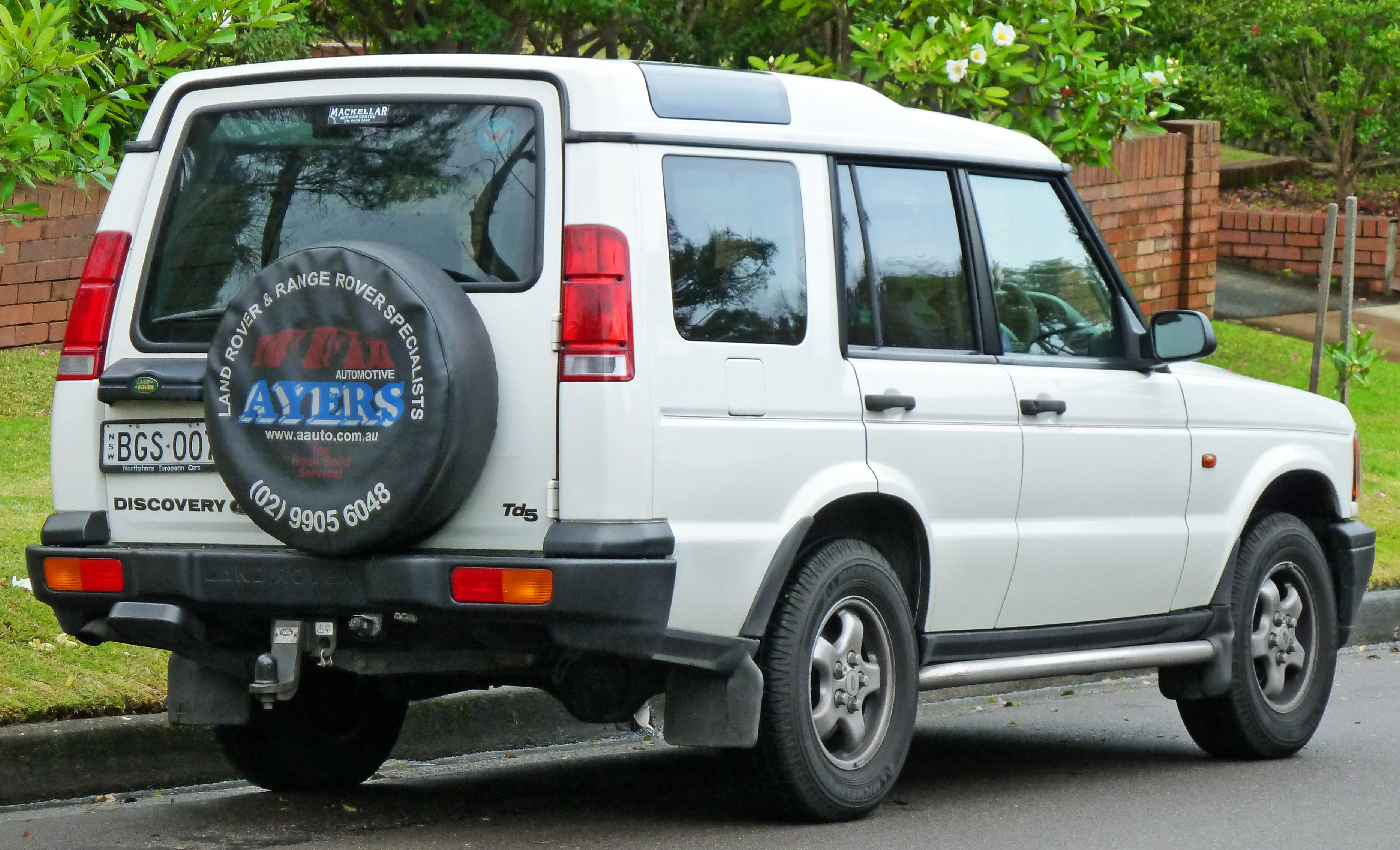 1999–2000 Land Rover Discovery II Td5 5-door wagon. Photographed in Gordon, New South Wales, Australia.